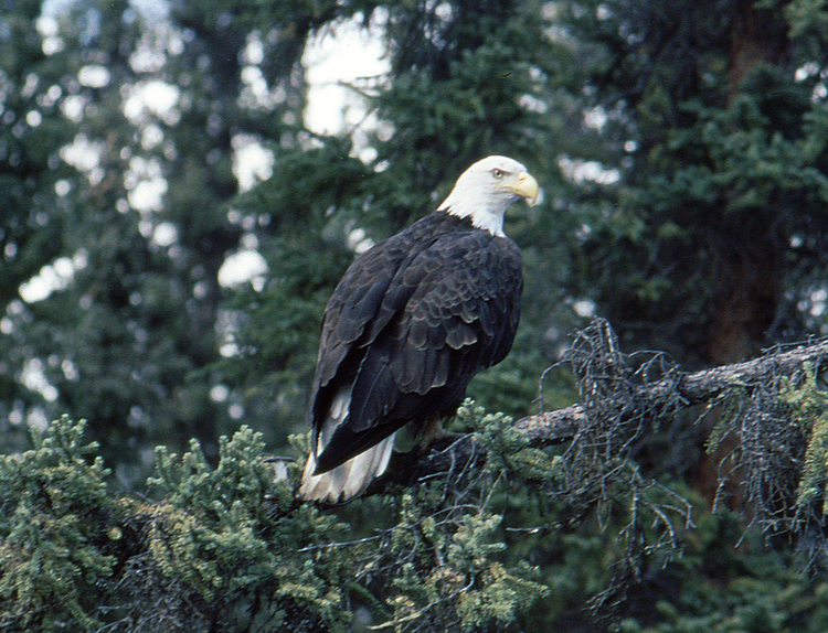 Bald Eagle